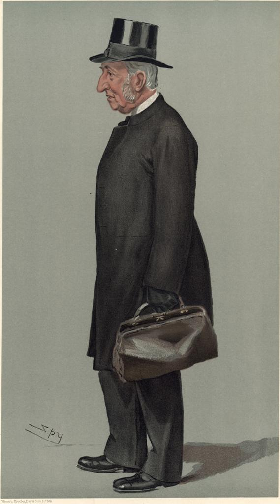 James John Hornby (Provost of Eton), "The Head".